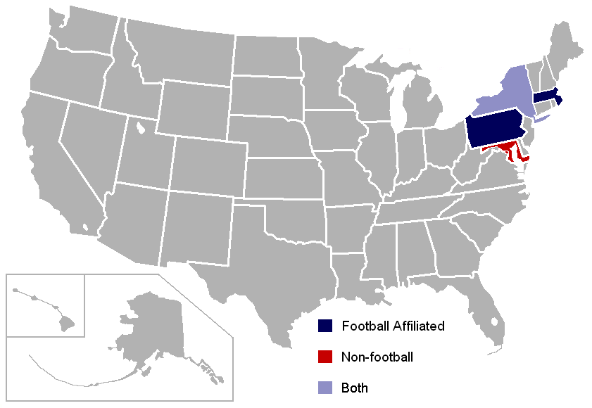 Derived from [1]; map of states with Patriot League schools